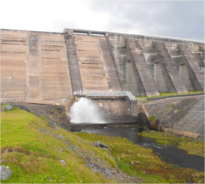 Hydraulic Flood Retention Basin (HFRB). In this case a hydro-electric dam illustrating the highly engineered apparerance of some HFRB